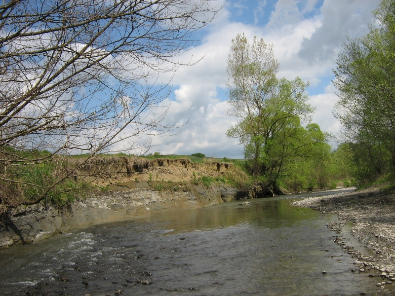 Nyárád (Niraj) river, TransylvaniaRomână: Râul Niraj lângă localitatea Grâușorul, Mureș